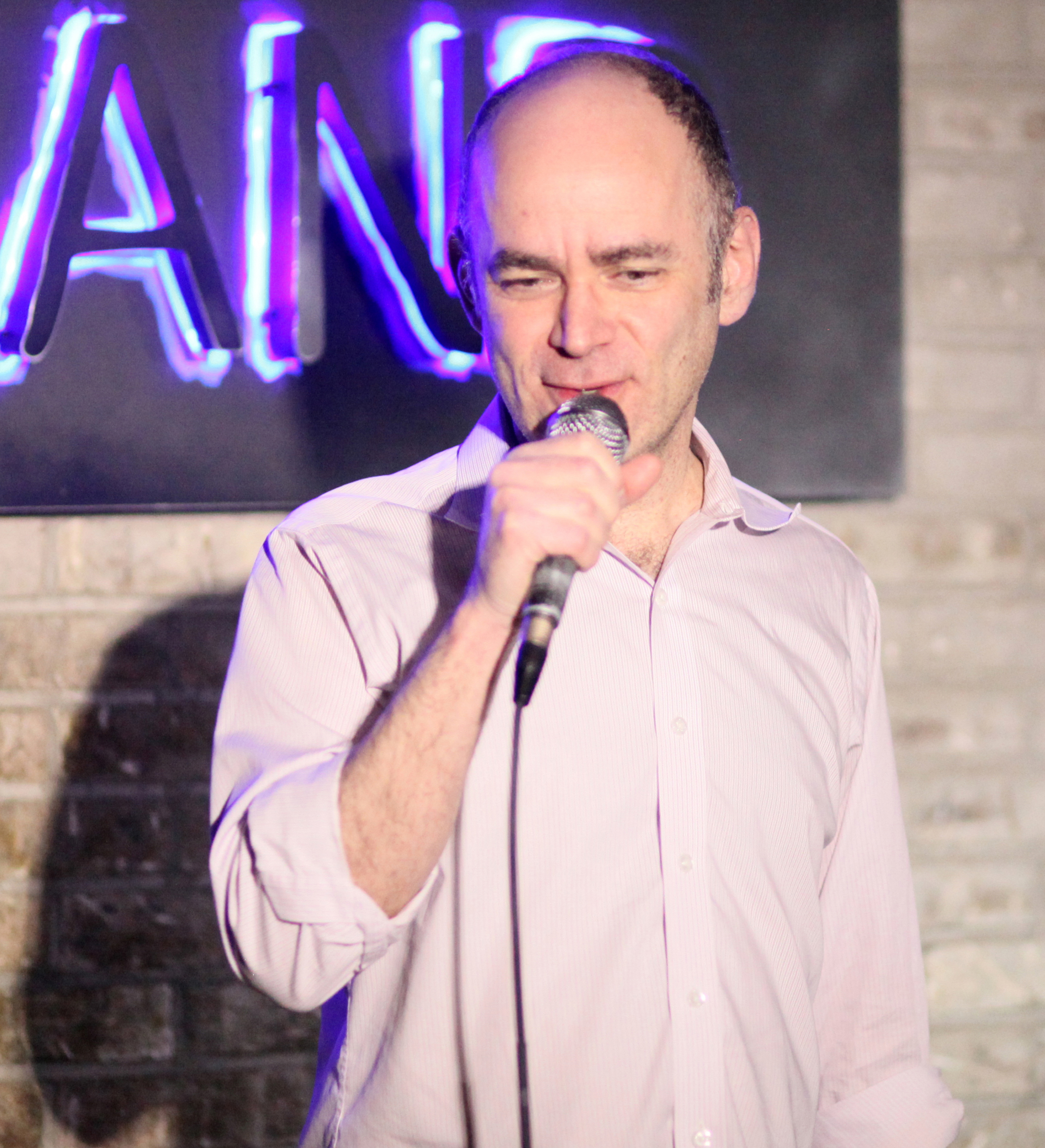 Barry in January 2017.